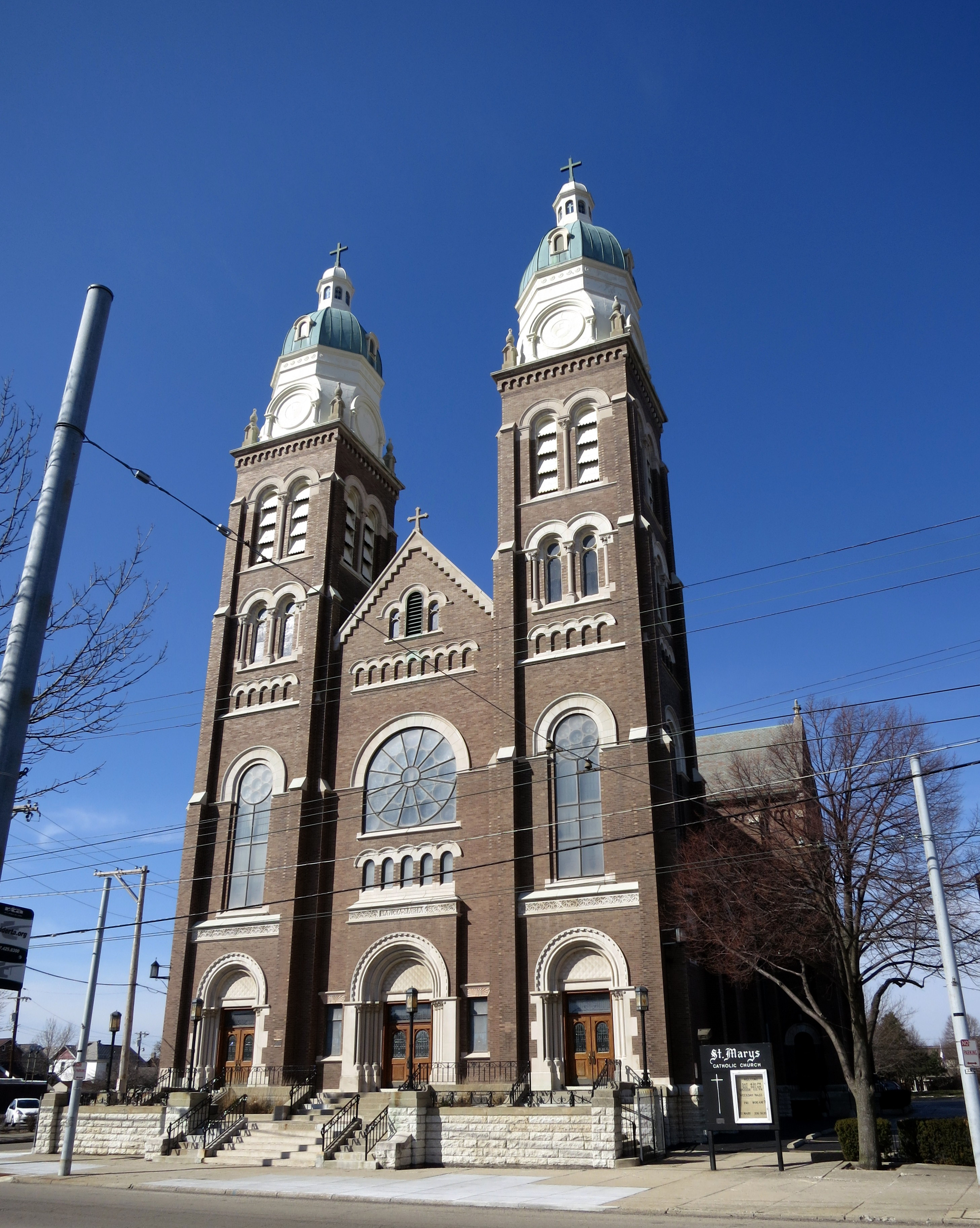 Saint Mary Catholic Church (Dayton, Ohio) - exterior